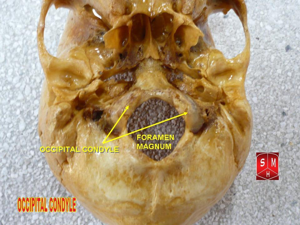 Anatomical preparation